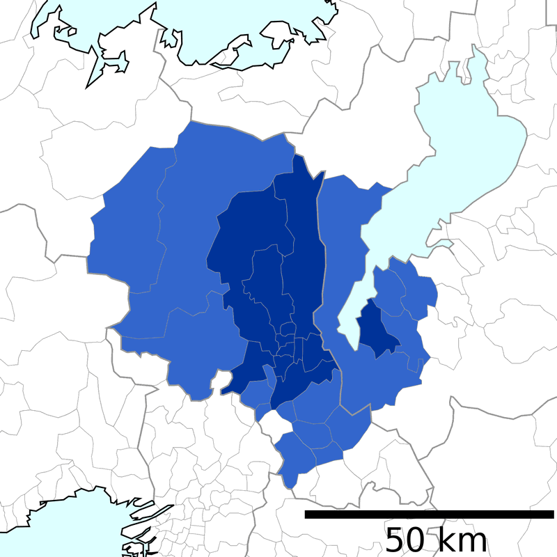 Urban Employment Area of Kyoto in 2015